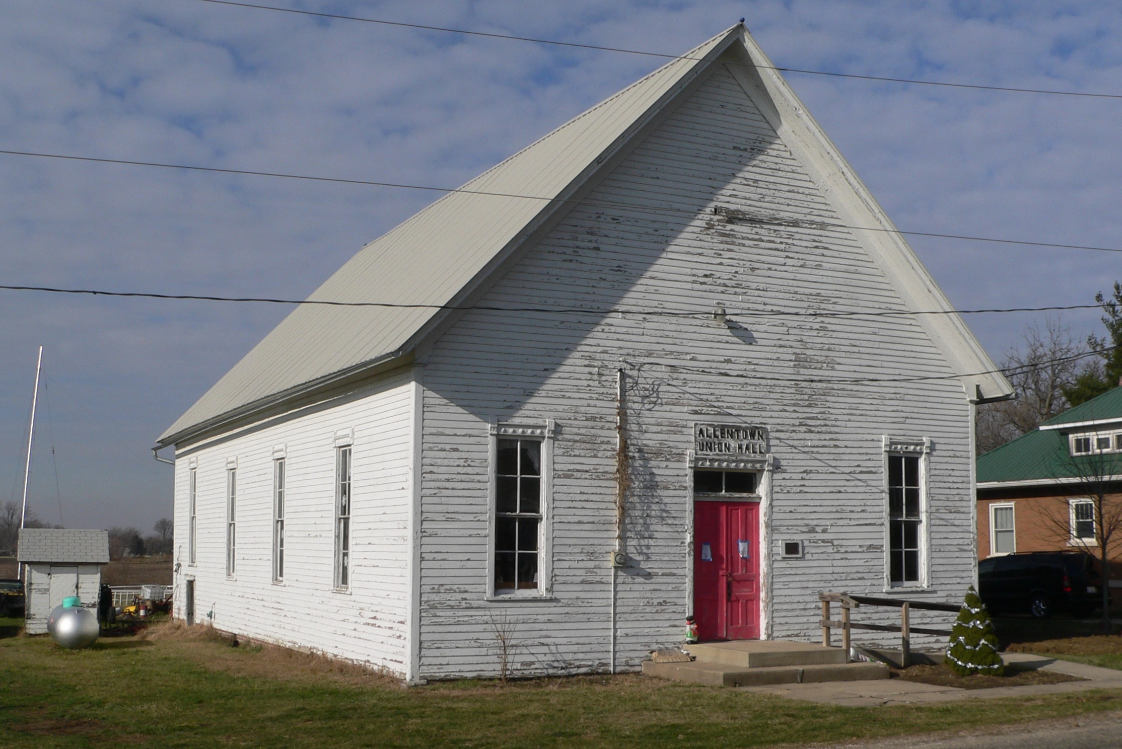 Allentown Union Hall, located in Allentown, Illinois, an apparently unincorporated settlement located northwest of Mackinaw, Illinos; seen from the southeast.